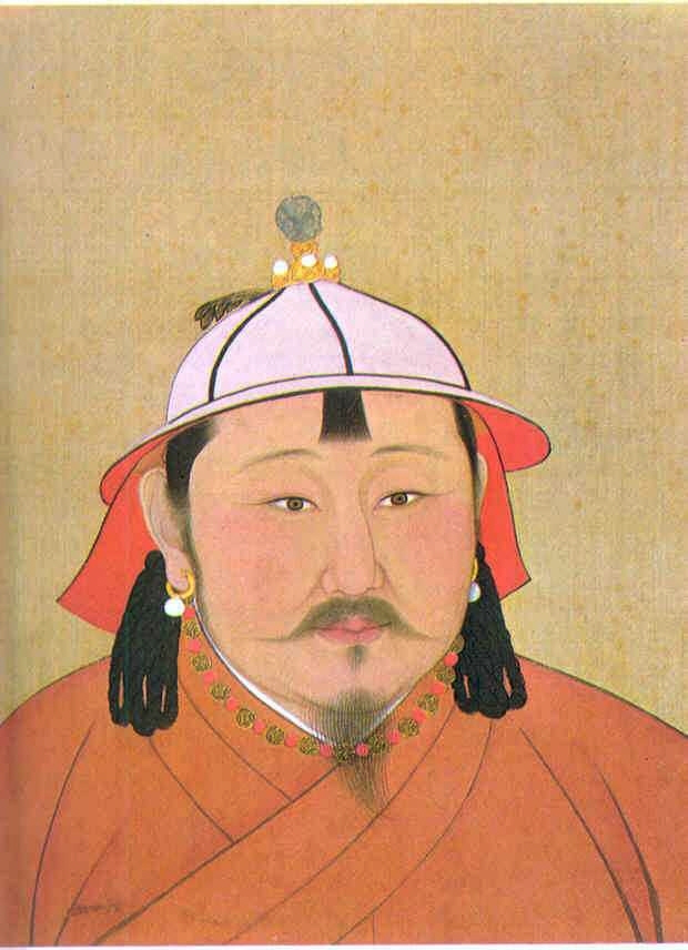 Chengzong, a.k.a. Temür, a.k.a. Öljeitü Khan. Portrait cropped out of a page from an album depicting several Yuan emperors (Yuandai di banshenxiang), now located in the National Palace Museum in Taipei (inv. nr. zhonghua 000324). Original size is 47 cm wide and 59.4 cm high. Paint and ink on silk. For the full page, see Image:YuanEmperorAlbumTemurOljeituFull.jpg.